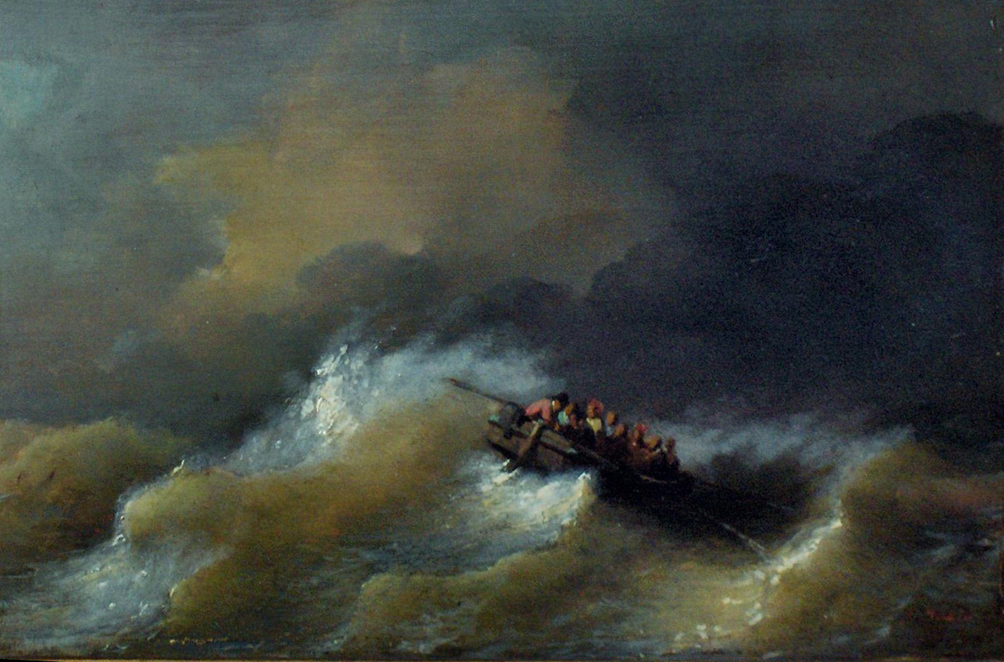 "Rowing boat in stormy weather" by François Musin (1820-1888); private collection.